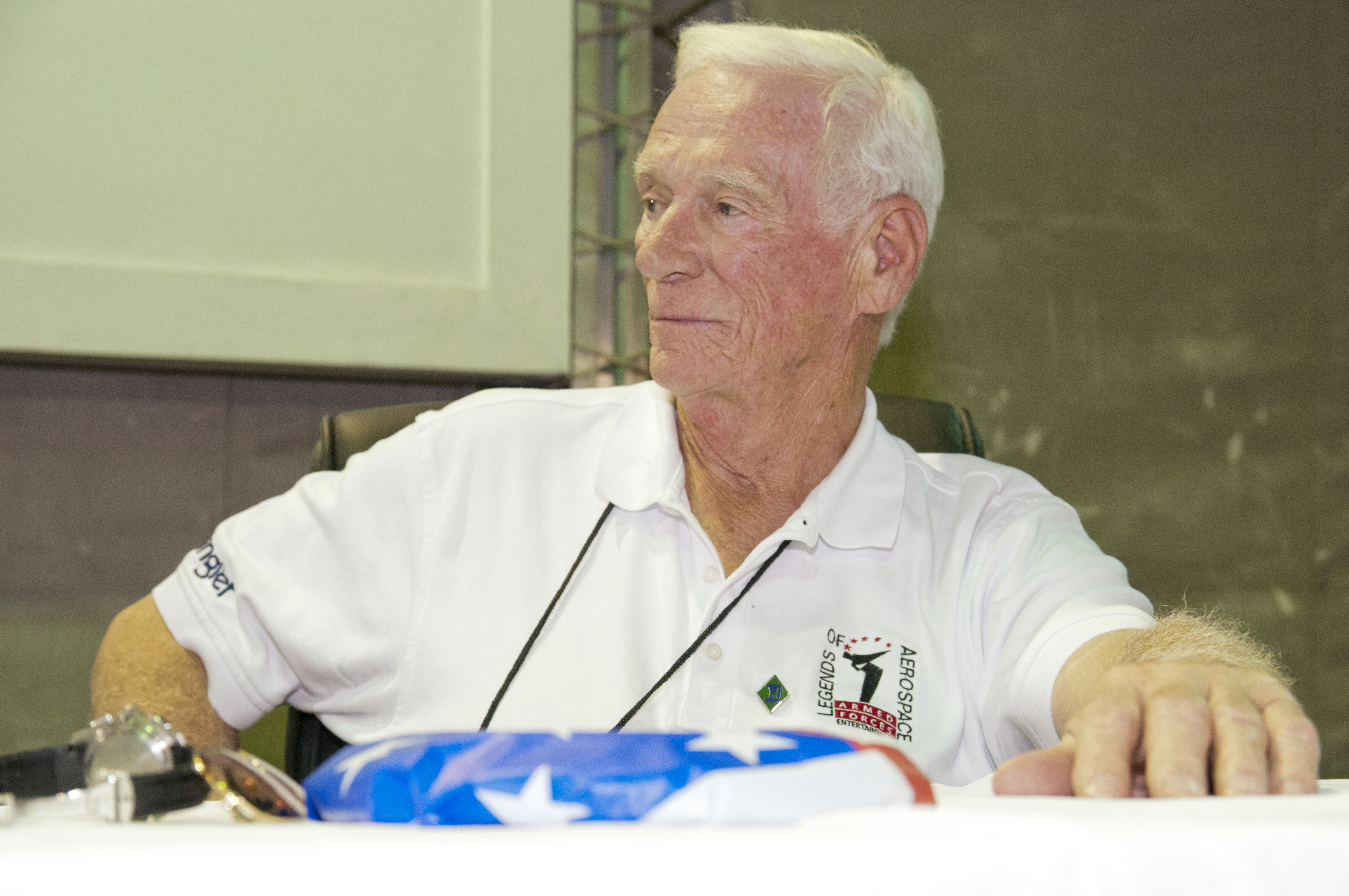 Astronaut Eugene Cernan, a former U.S. Navy aviator, listens to questions from U.S. and other NATO Training Mission-Afghanistan coalition servicemembers during the "Legends of Aerospace" United Services Organization tour at NATO Training Mission-Afghanistan headquarters on Camp Eggers in Kabul, Afghanistan, August 16, 2011. Cernan, along with Neil Armstrong and Jim Lovell, gladly recanted tales of the pioneer voyages into space and walking on the moon. (U.S. Navy photo by Mass Communication Specialist 2nd Class John R. Fischer/Released)